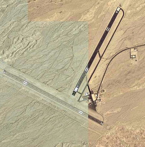 USGS digital orthophoto of Needles Airport in California